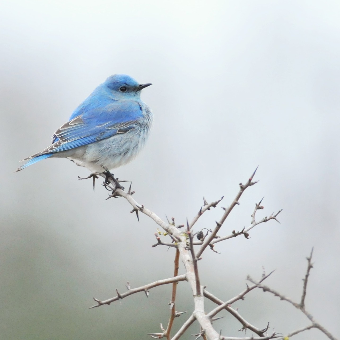 Mountain Bluebird ♂ (Sialia currucoides)